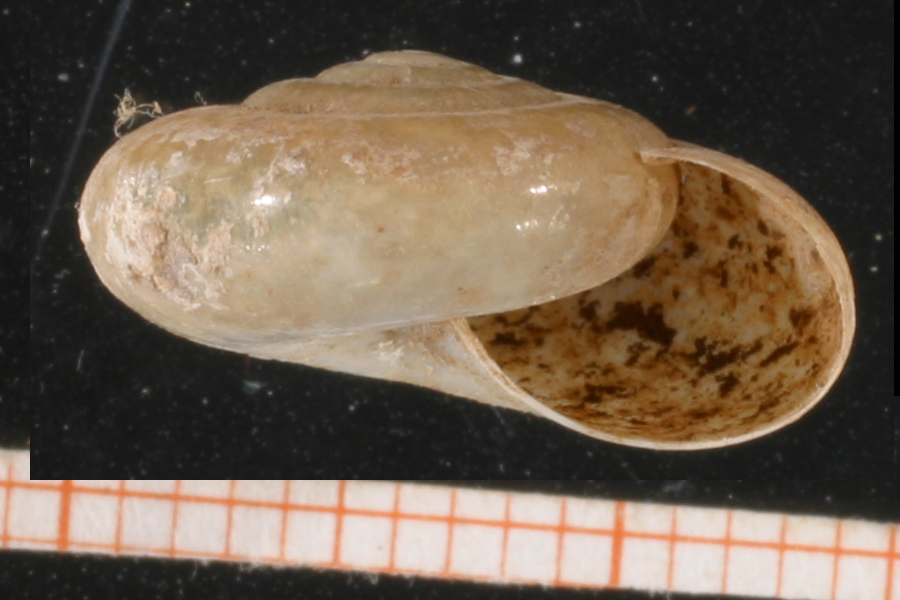 Morlina glabra (Rossmässler, 1835), Oxychilidae, Gastropoda, Mollusca, Locality: S Albania: Mali Gradecit 2.5 km E Çorovodë, 900 m alt